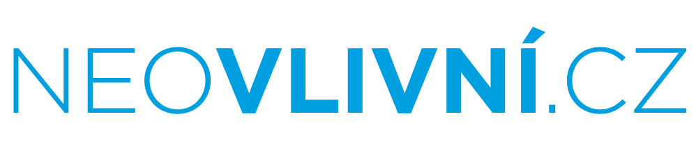 Neovlivní.cz logo